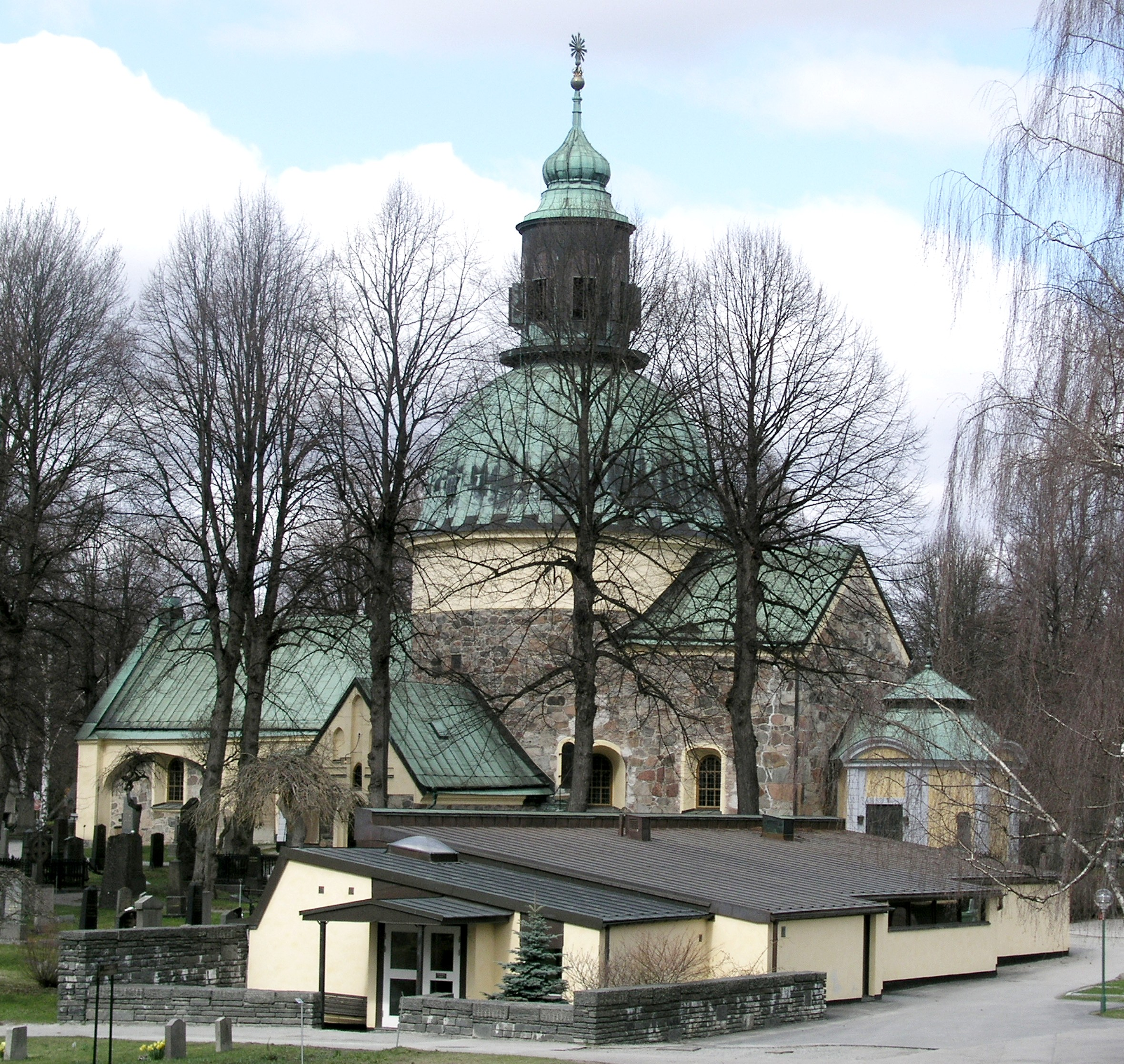 Solna Kyrka / Solna Church. Stockholms stift, Solna kommun